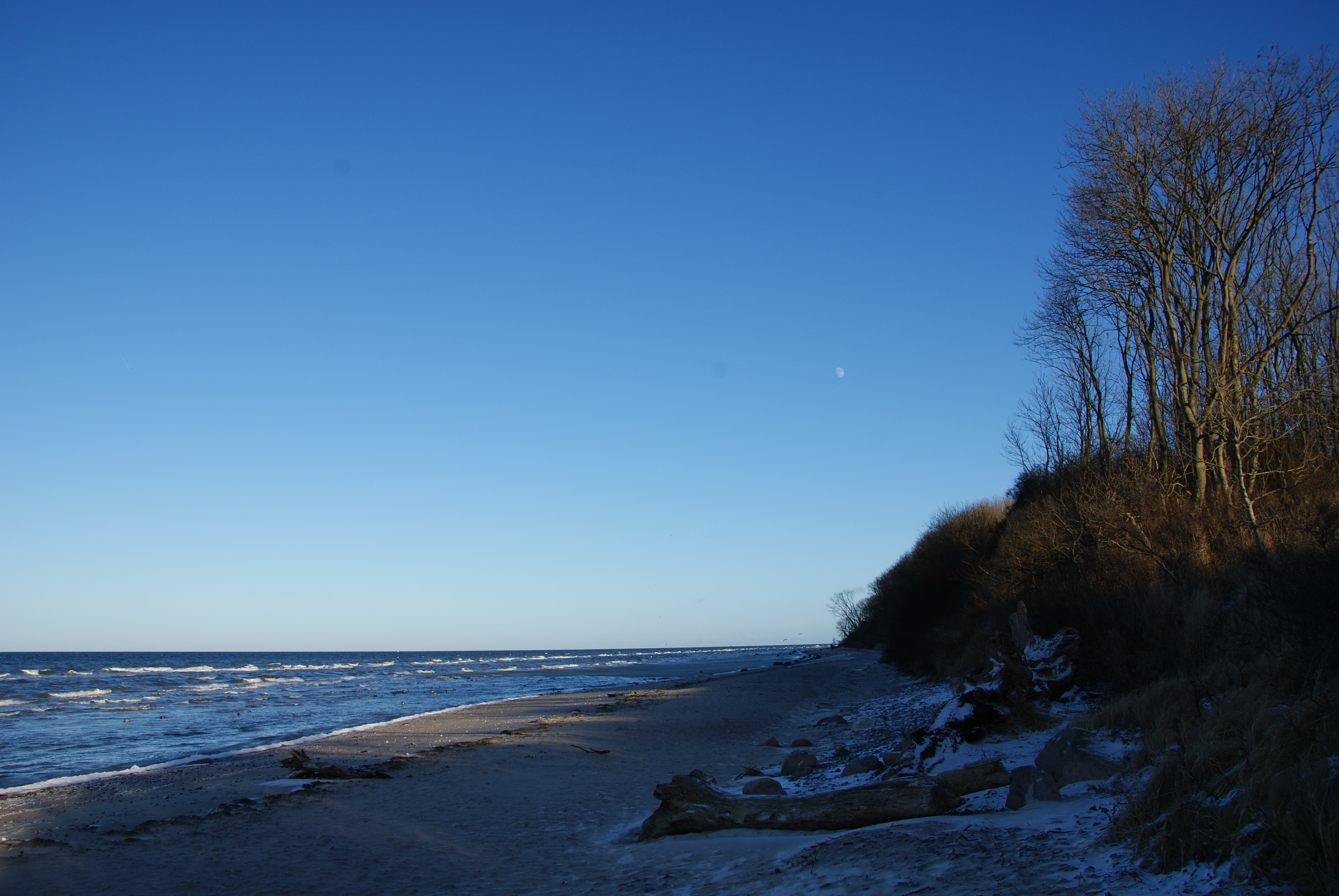 Coast of Baltic Sea near Brook (Kalkhorst)